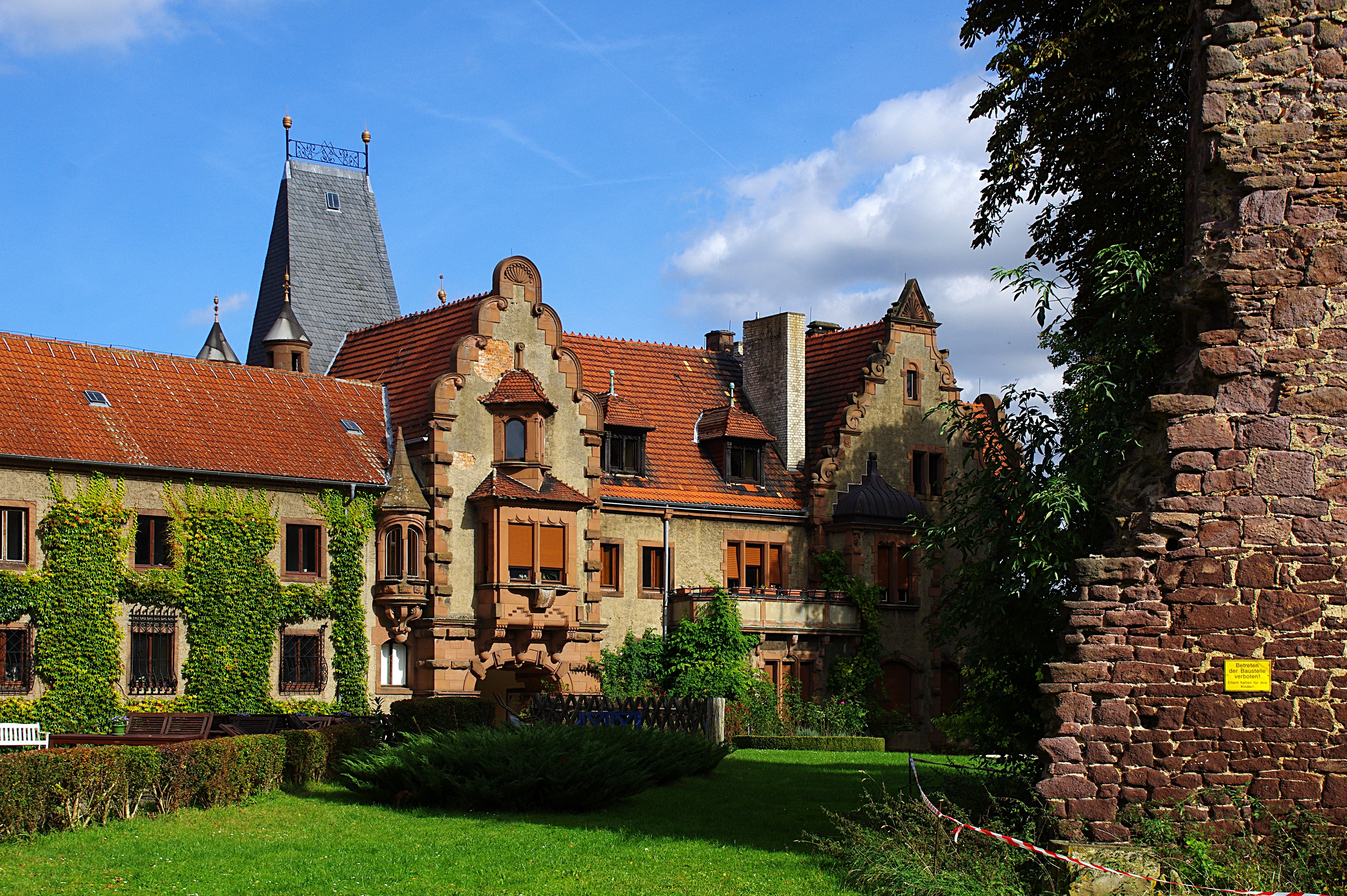 Castle Veltheim in Hohe Börde-Bebertal, Saxony-Anhalt